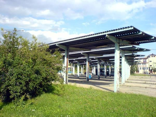 Bus stop